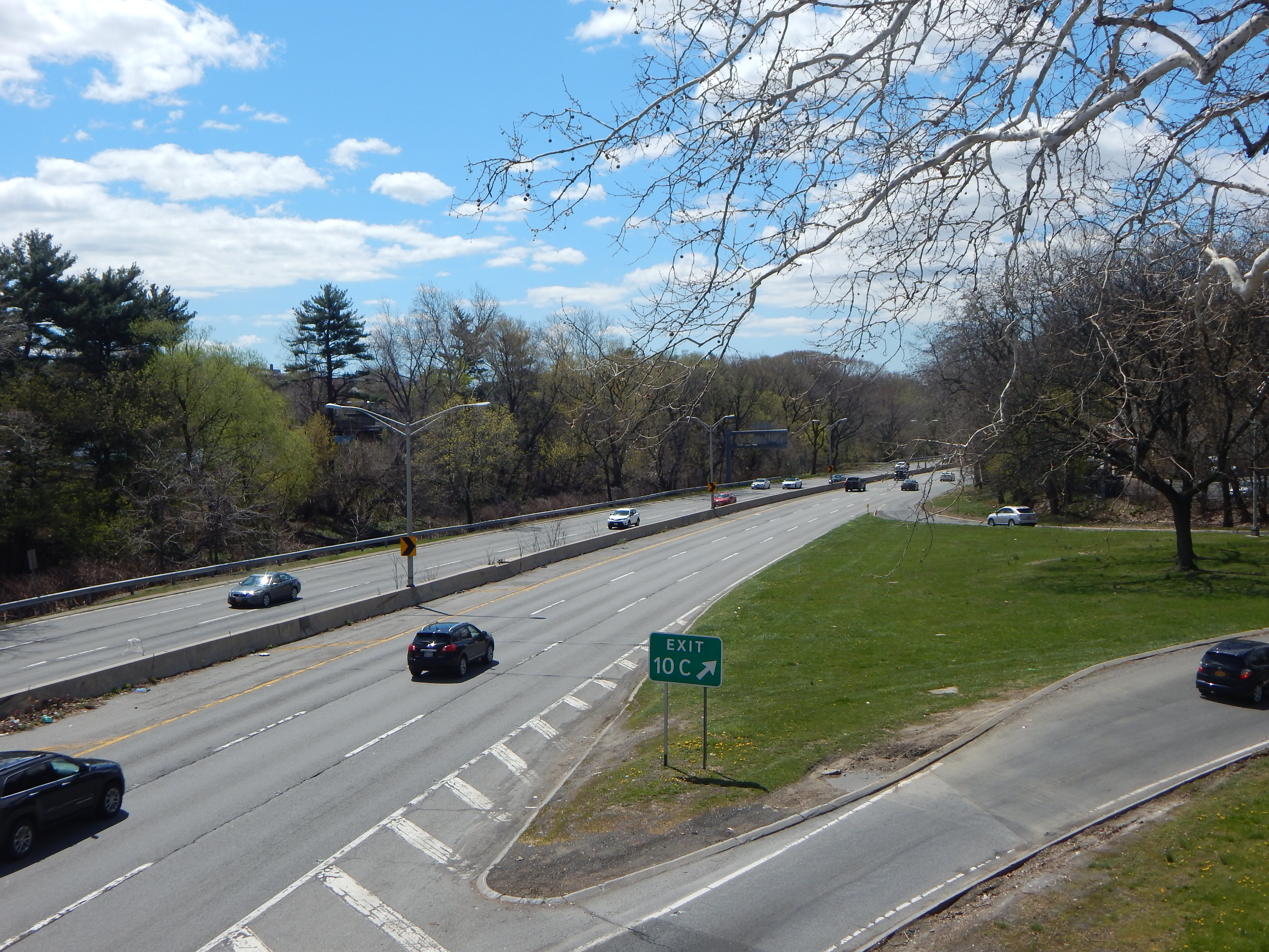 Bronx River Parkway southbound at exit 10C in the Wakefield section of the Bronx.